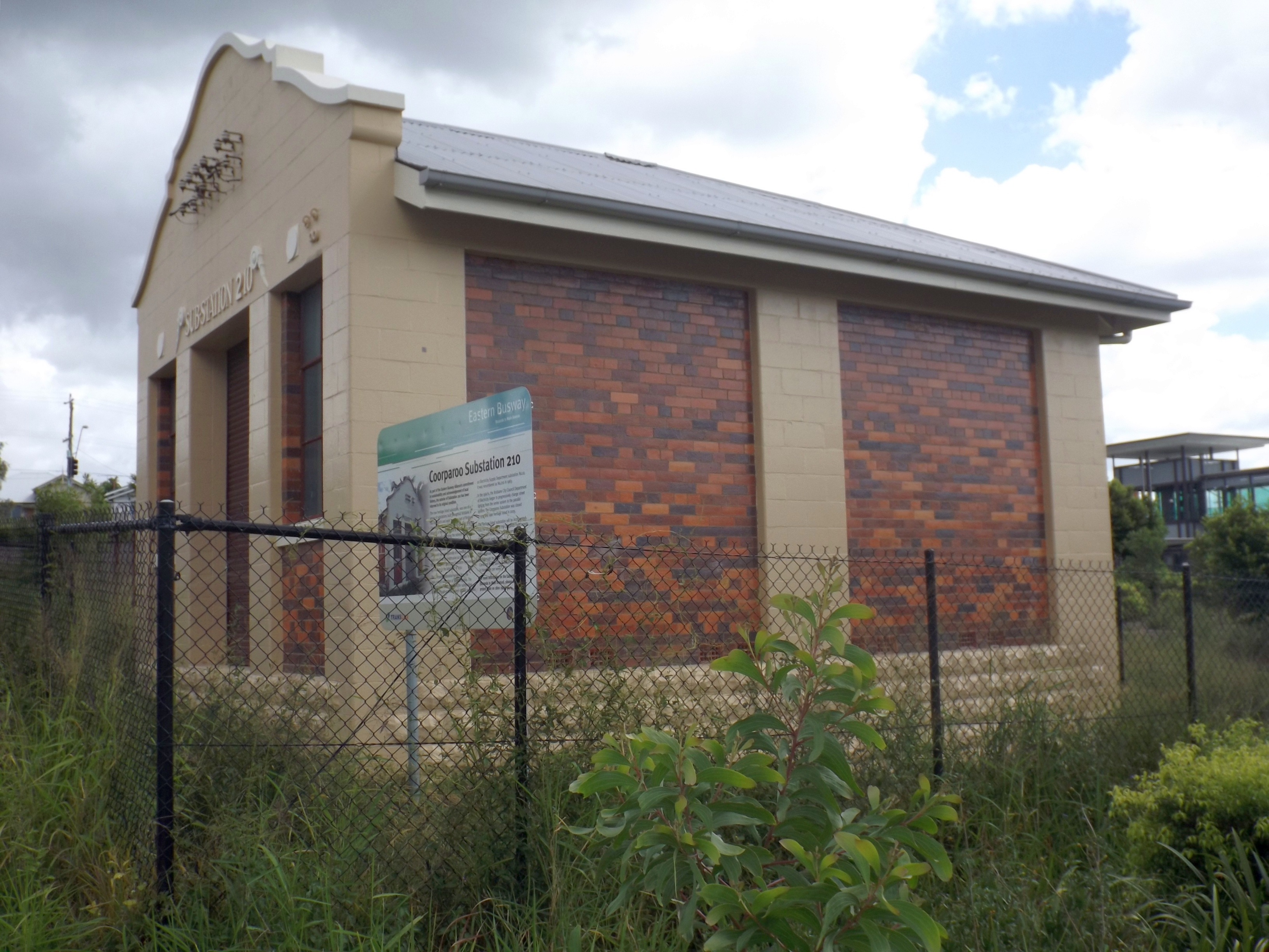 Photo of Coorparoo Substation No. 210 at Coorparoo, Brisbane, Queensland, Australia.